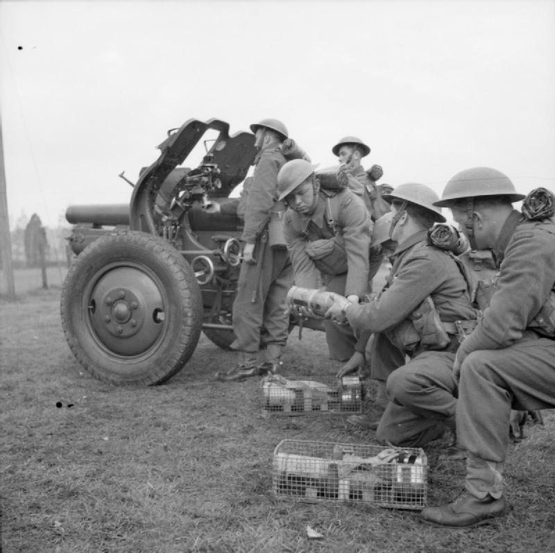 Allied Forces in the United Kingdom 1939-45 Gunners of the 1st Heavy Artillery Regiment (1st Polish Corps) manning a QF 4.5 inch Howitzer on a training exercise near St Andrews in Scotland.